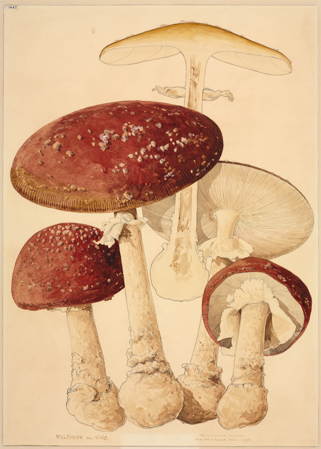 Amanita muscaria painting